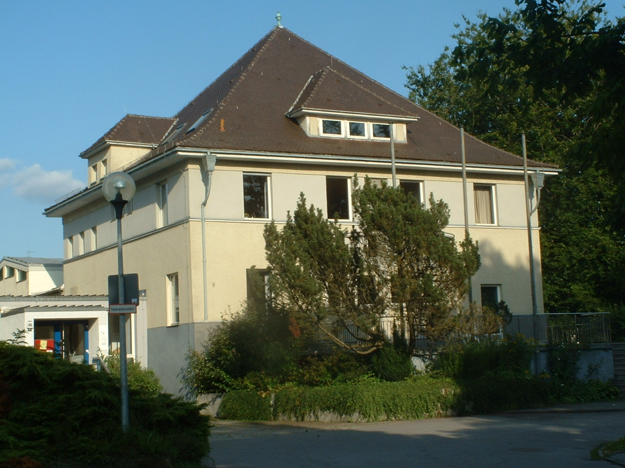 Former Villa Bergmann in Laupheim Ehemalige Villa Bergmann in Laupheim